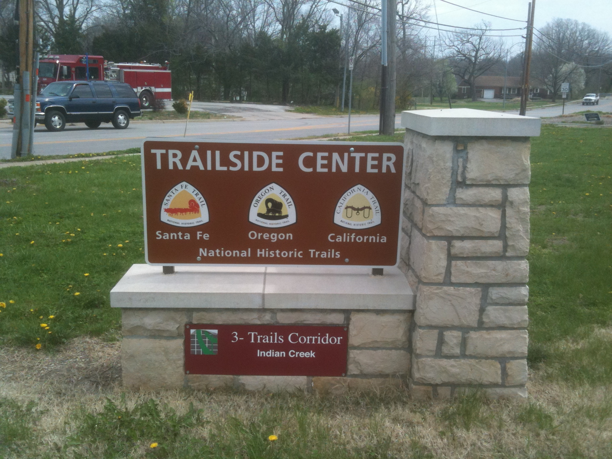 Photograph of sign outside of Trailside Center in Kansas City, Missouri.